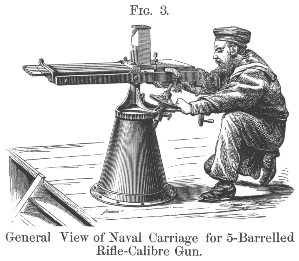 Contemporary drawing of 5-barrel Nordenfelt rifle-calibre machine gun on naval carriage.